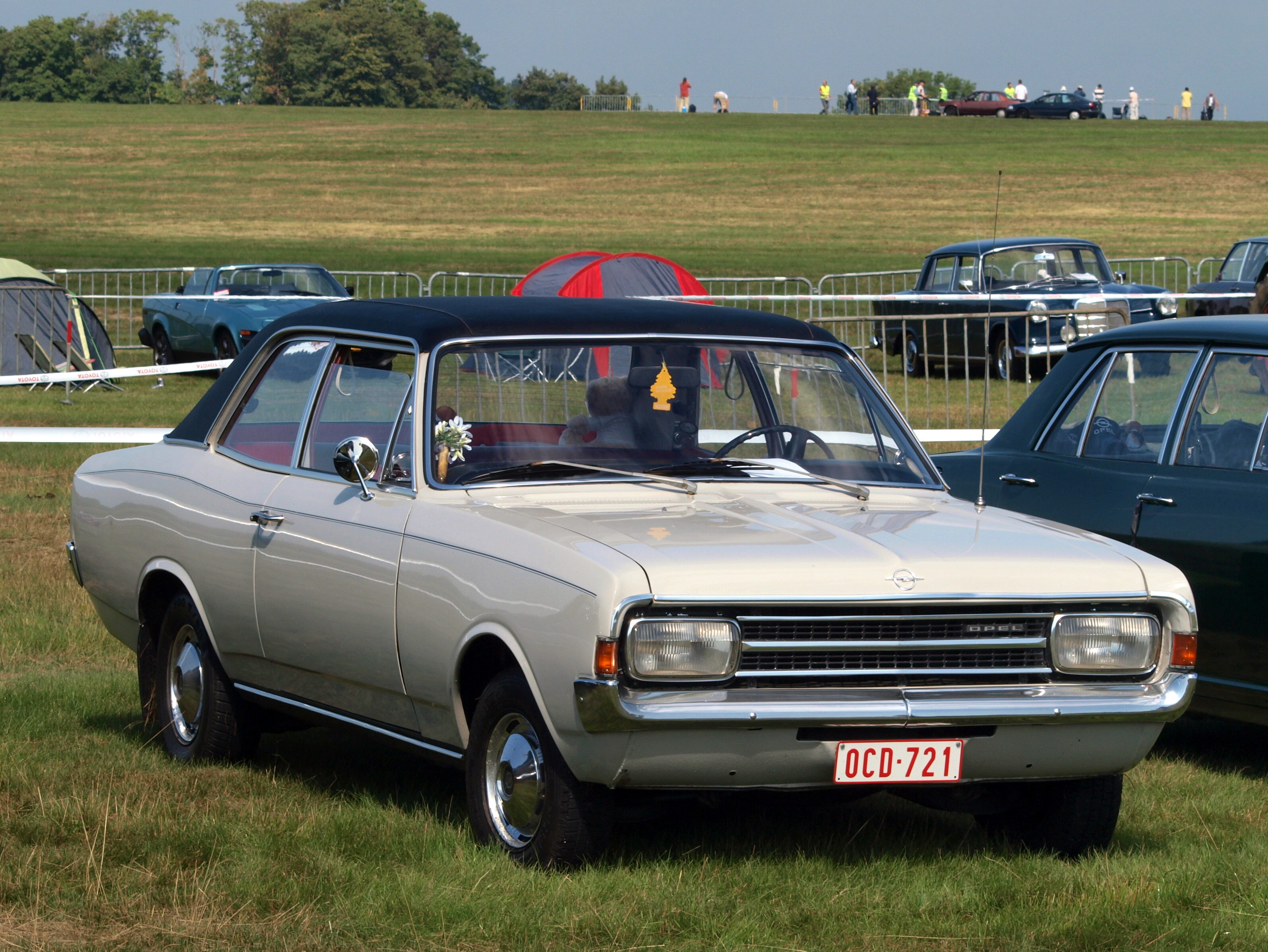 Photographed at The International Oldtimer Fly and Drive In 2010, Schaffen-Diest, Belgium.